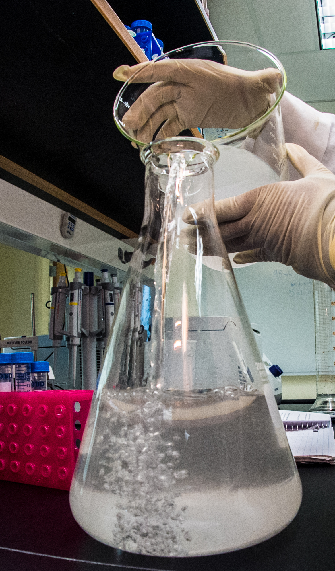 Gwinnett Technical College student Yolanda Hale pours a liquid solution from a large beaker into a Erlenmeyer flask as she follows a set procedure to create a needed solution of chemicals, part of her Integrative Biology Class laboratory work in the Bioscience Laboratory at Gwinnett Technical College in Lawrenceville, GA on Friday, Mar. 20, 2015. Hale is working on a project studying the kinetics (properties) of the enzyme tyrosinase (ty-rose’-n-ase) that is being isolated from potatoes. USDA photo by Lance Cheung.